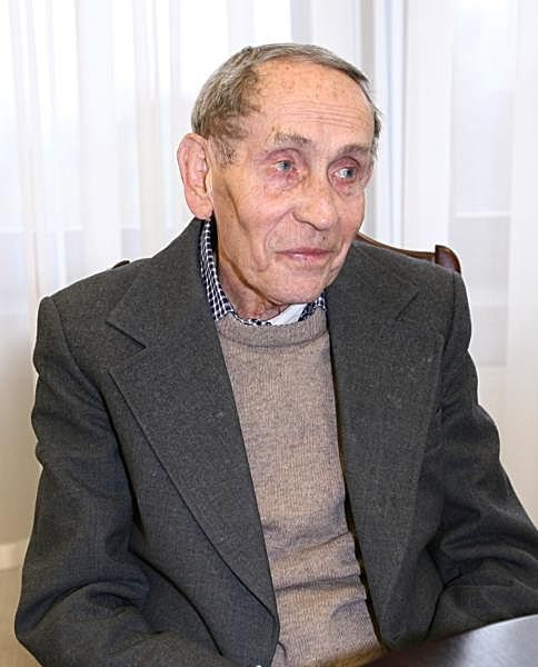 Tadeusz Konwicki in the Polish Senate